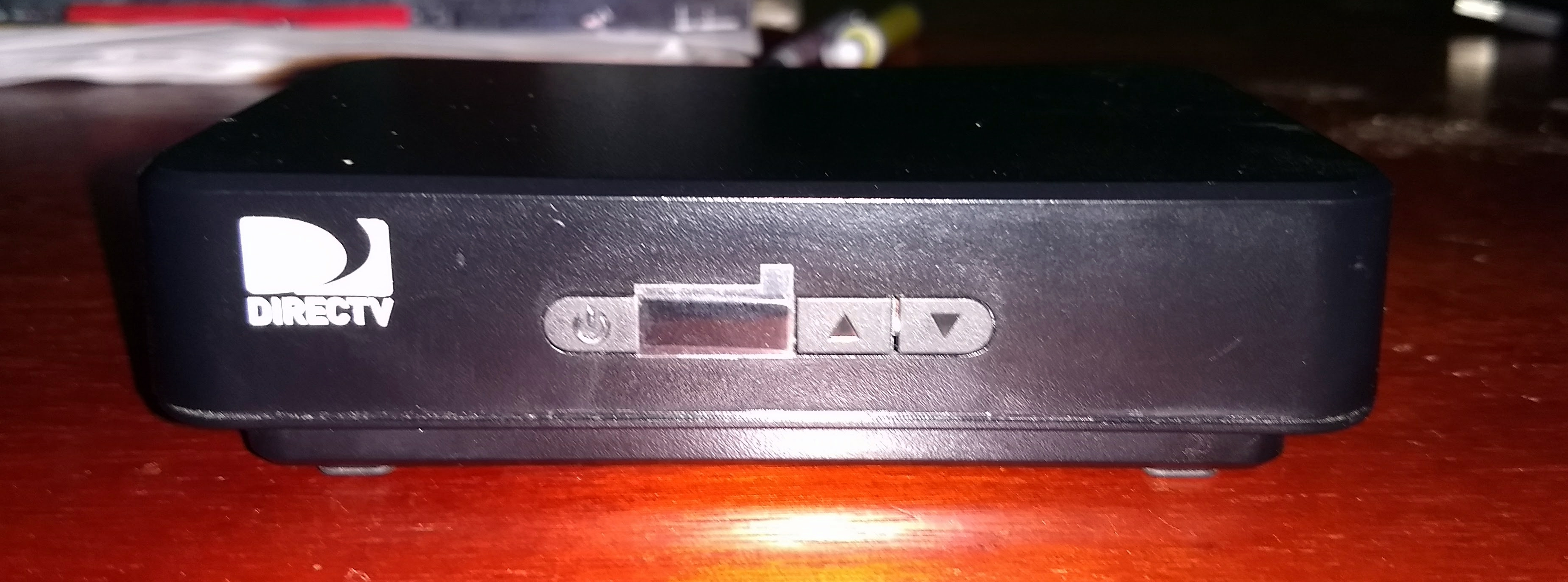 A DirecTV L14 satellite decoder used in Colombia and Latin America, installed in my bedroom and with the active programming plan